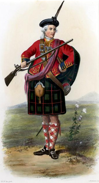 "Shaw". A plate illustrated by R. R. McIan, from James Logan's The Clans of the Scottish Highlands, published in 1845.